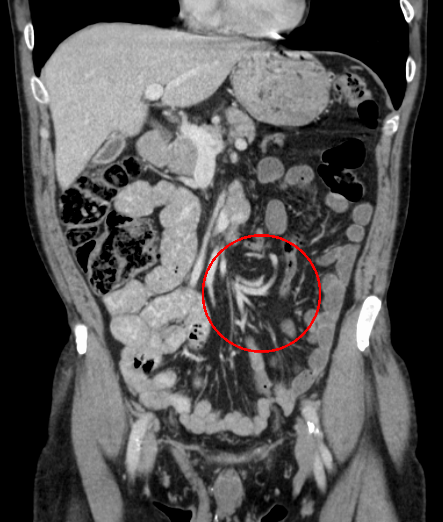 A person with a volvulus as seen on CT. Note the twisting of the bowel